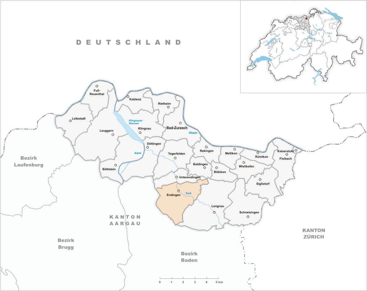 Municipality Endingen